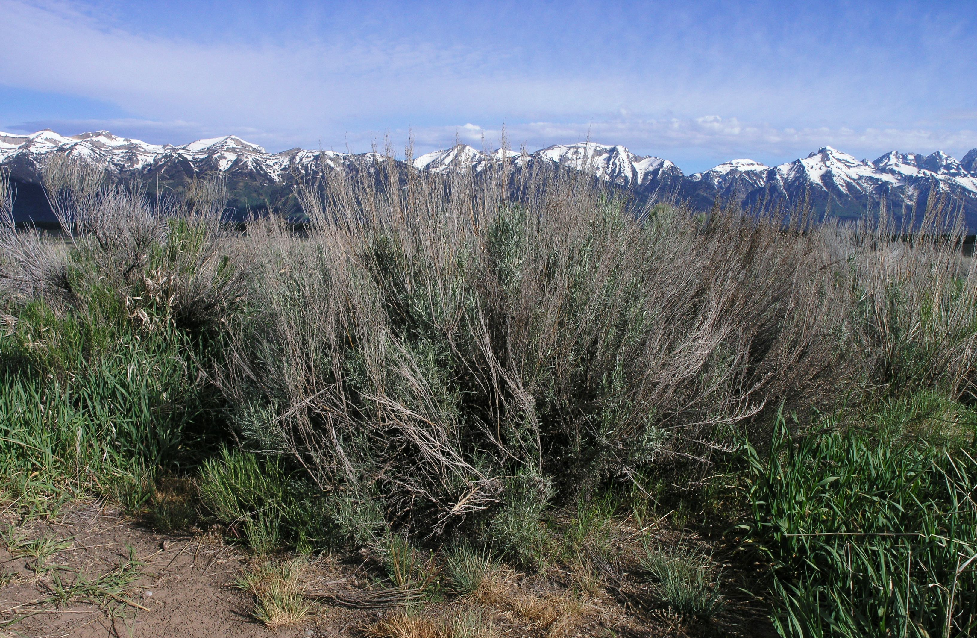 Photo in or around Grand Teton National Park